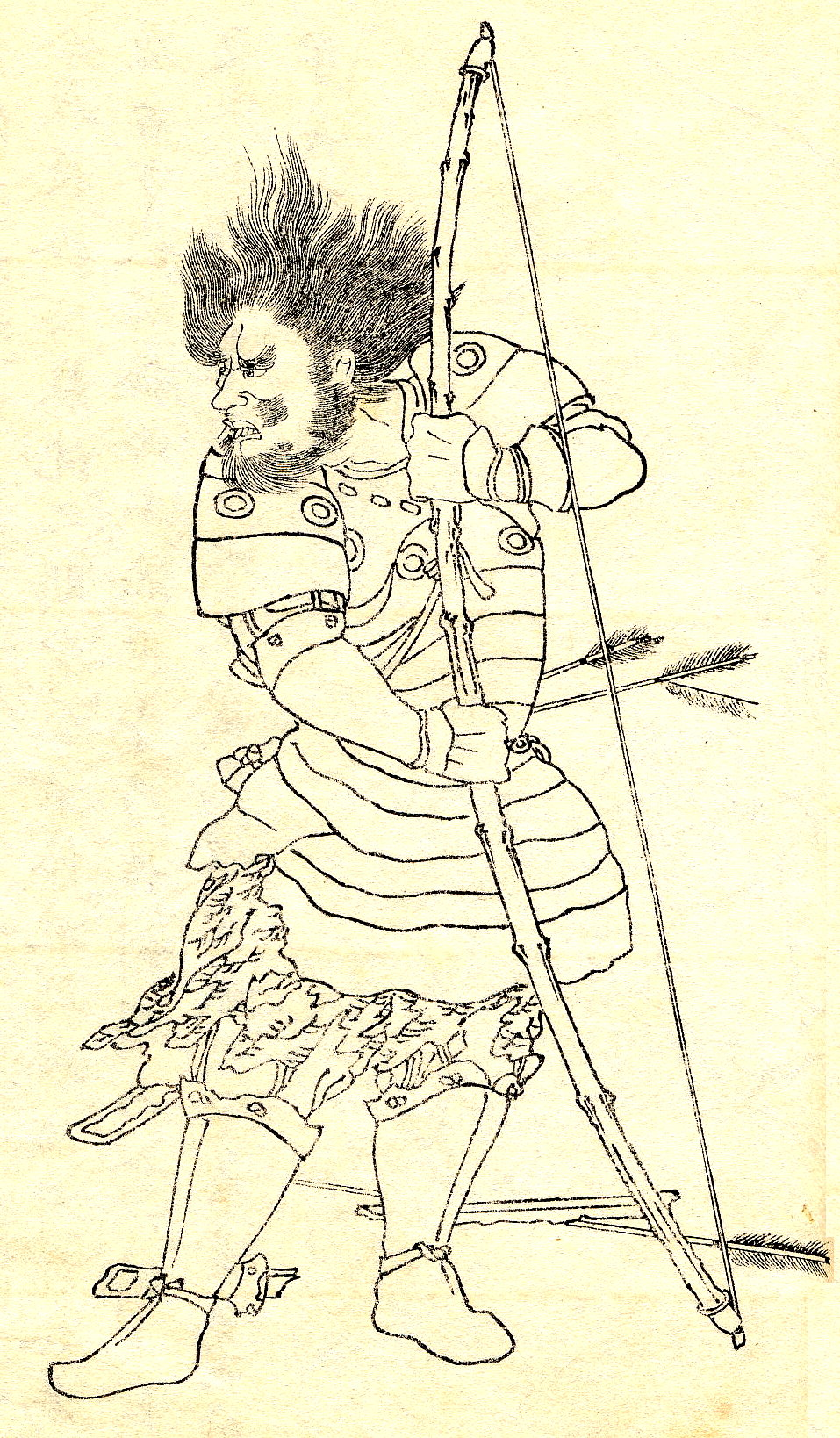 Kamitsukenu-Tamichi（上毛野田道）was a legendary hero in ancient history of Japan.